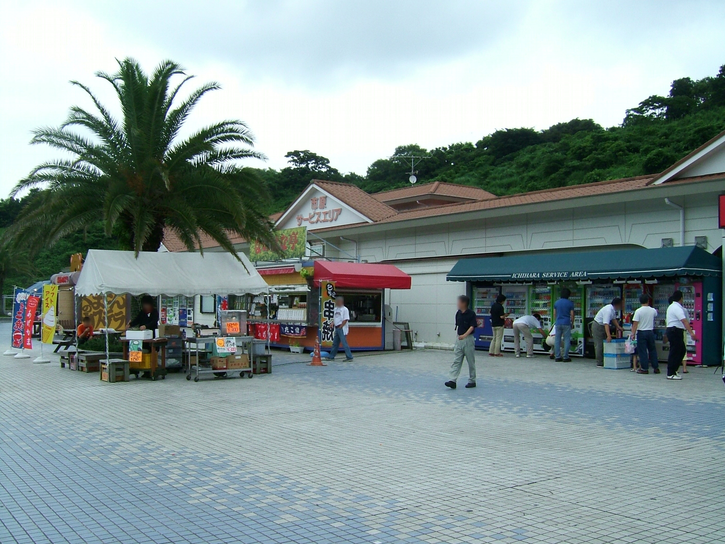 Ichihara rest area on Tateyama Expressway for Tateyama